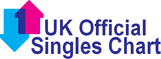 The logo of the UK's Official Singles Chart, which is based on official data compiled by the Official Charts Company